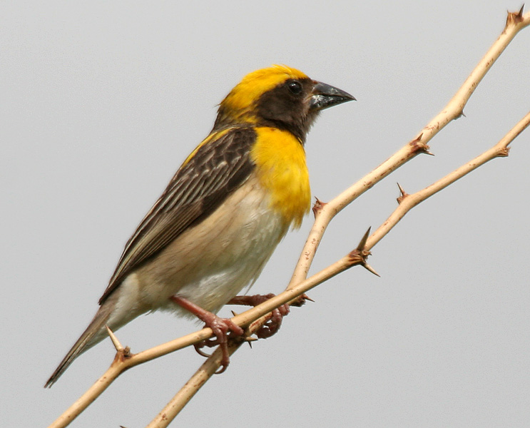 Baya Weaver Ploceus philippinus- Tokora, Tokora chorai (Assamese); Baya, Son-Chiri (Hindi);Baya Chadei (Oriya); Sugaran (Marathi); Tempua (Malay); Sughari (Gujarati); Babui (Bengali); Parsupu pita, Gijigadu/Gijjigadu (Telugu); Gijuga (Kannada); Thukanam kuruvi (Malayalam);Thukanan-kuruvi (Tamil); Wadu-kurulla, Tatteh-kurulla, Goiyan-kurulla (Sinhala); sa-gaung-gwet, mo-sa (Myanmar); Bijra (Hoshiarpur); Suyam (Chota Nagpur)- male in Hyderabad, India.